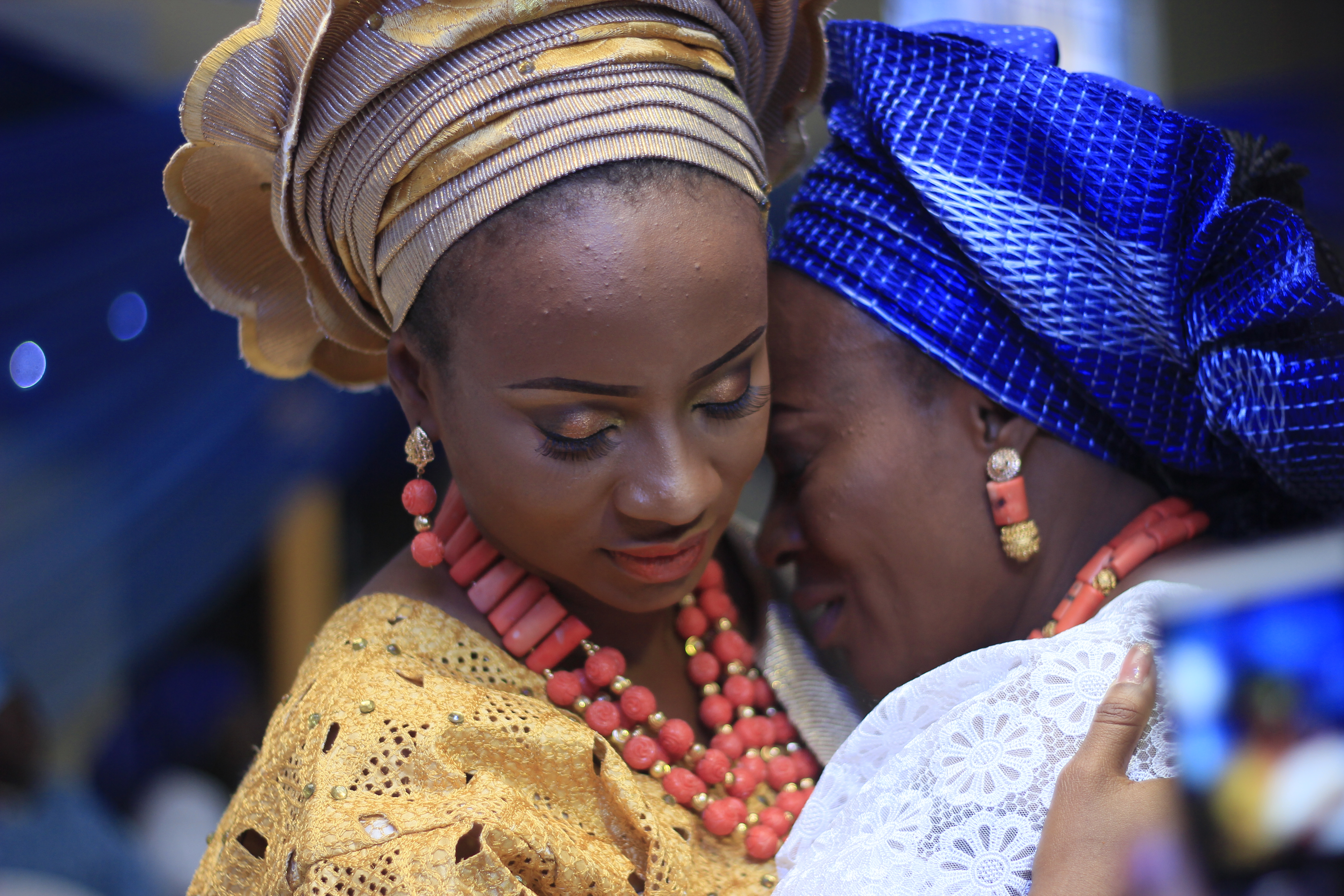 A Yoruba bride hugs her mother on her traditional wedding day. This is a farewell hug from mother to daughter. Nigerian Yoruba wedding. This is an image of Cultural Fashion or Adornment from Nigeria